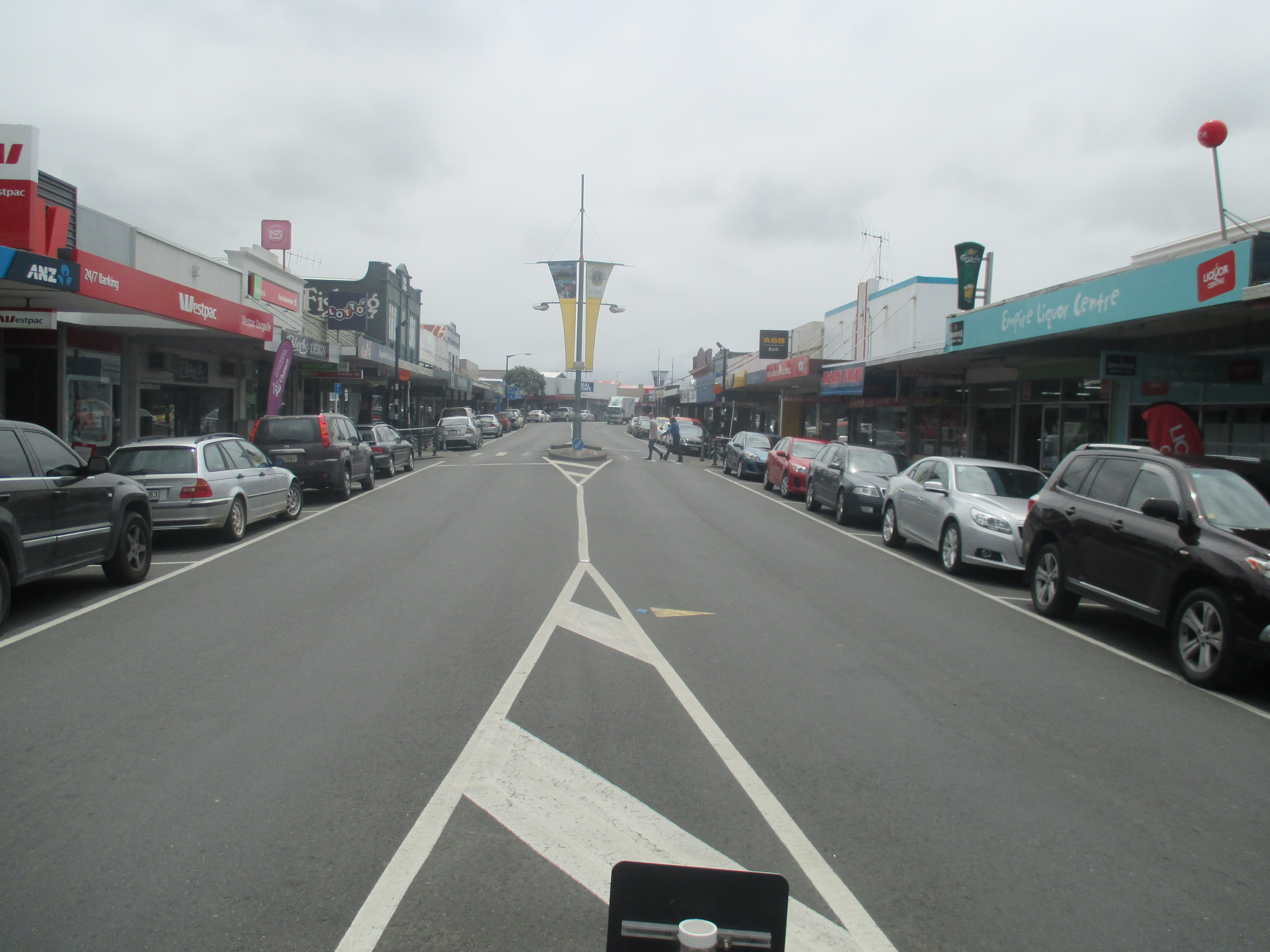 Victoria Street, Dargaville, New Zealand, the main shopping street in Dargaville